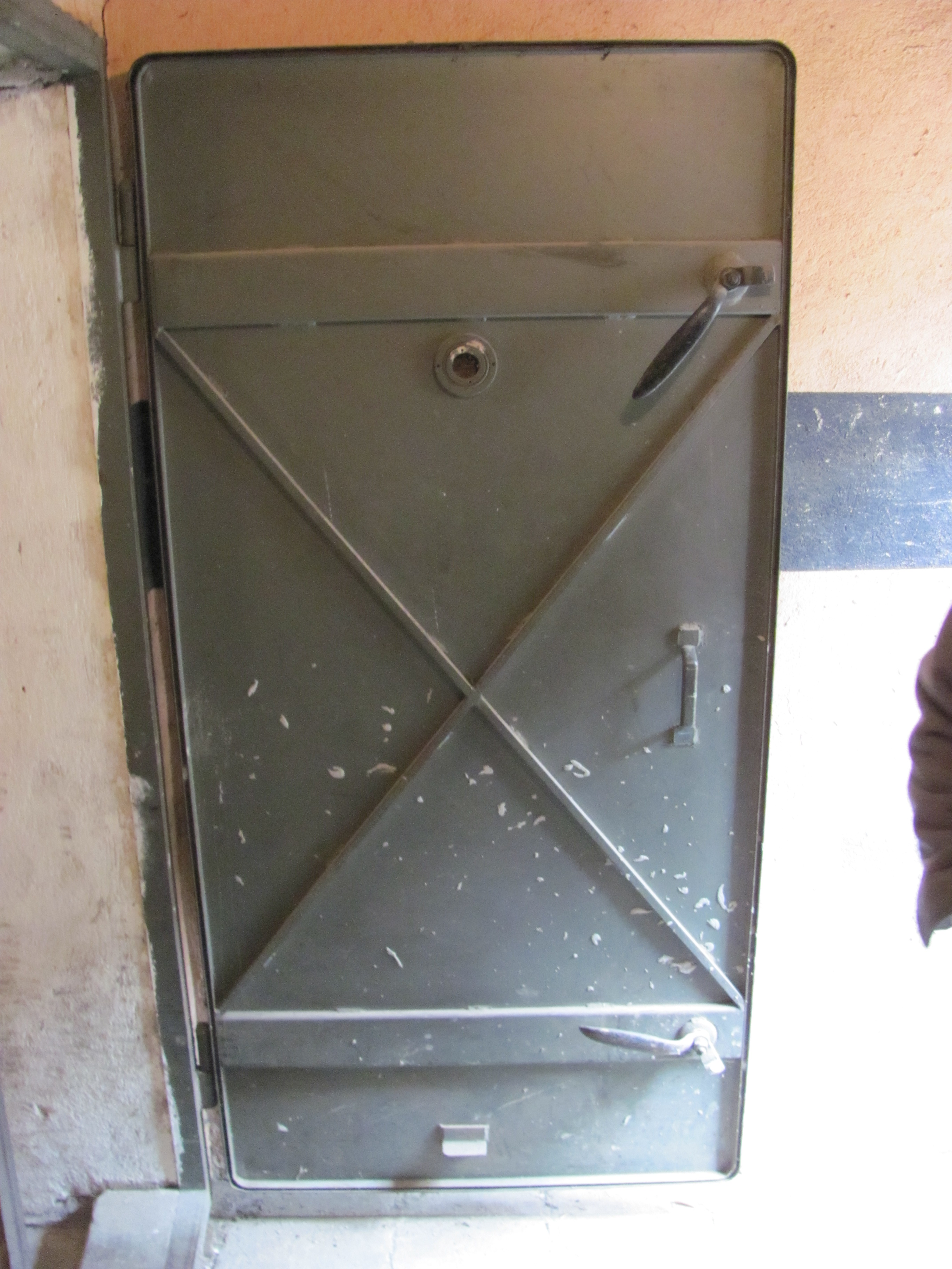 WW II air raid shelter, Marschnerstraße 5, Frankfurt, Germany